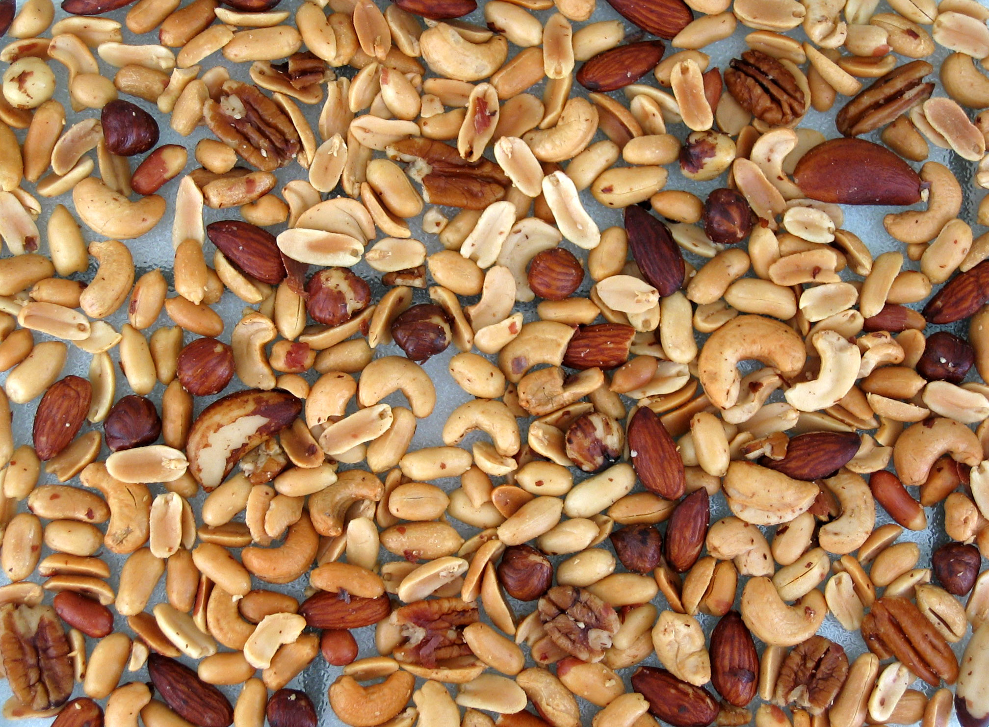 Mixed nuts